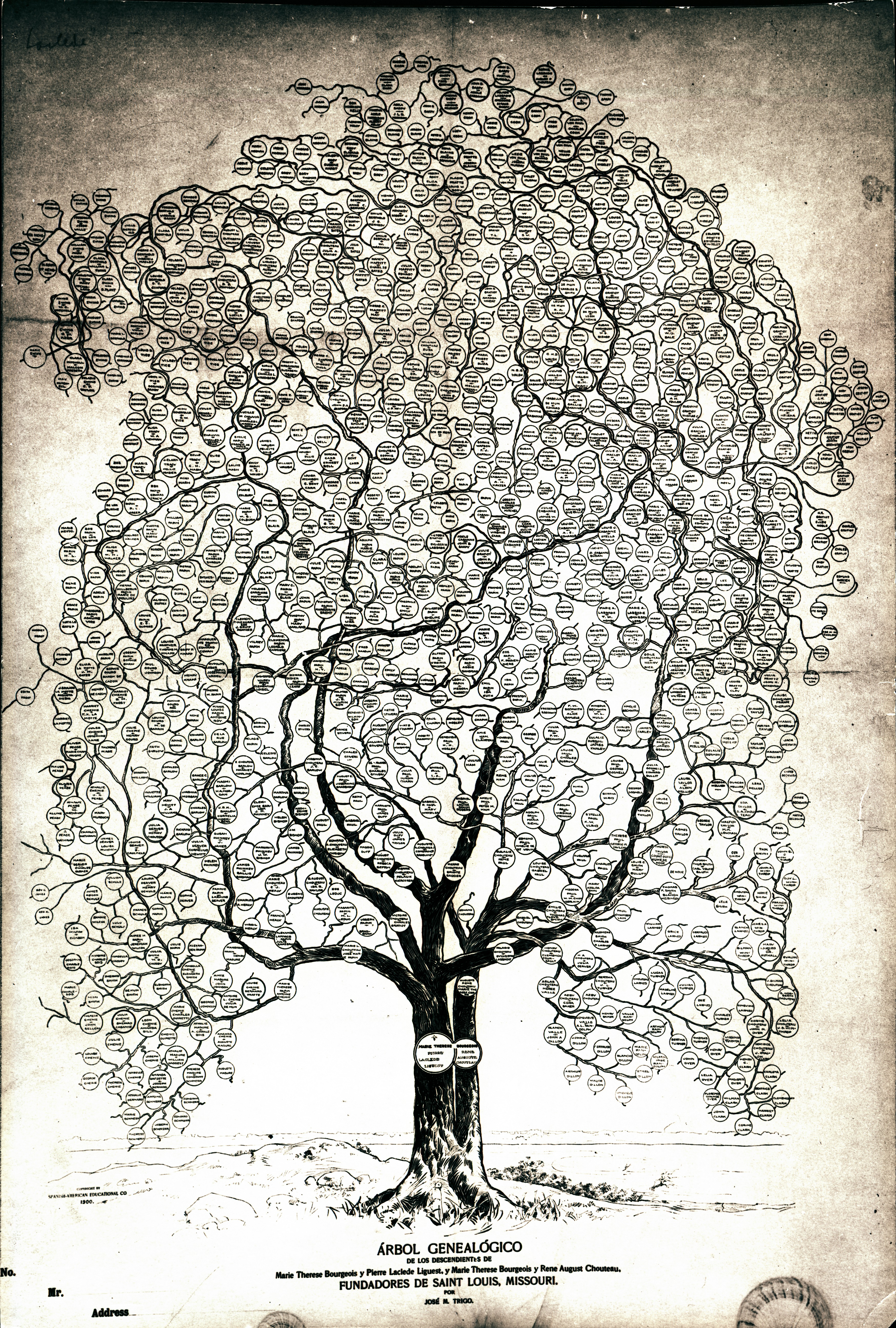 Title: Arbor Geneologico Chouteau [Chouteau Family Tree], 1900